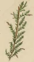 Stainton’s Natural History of the Tineina (1855–1873): Coleophora juncicolella sprig of Erica with mined leaves